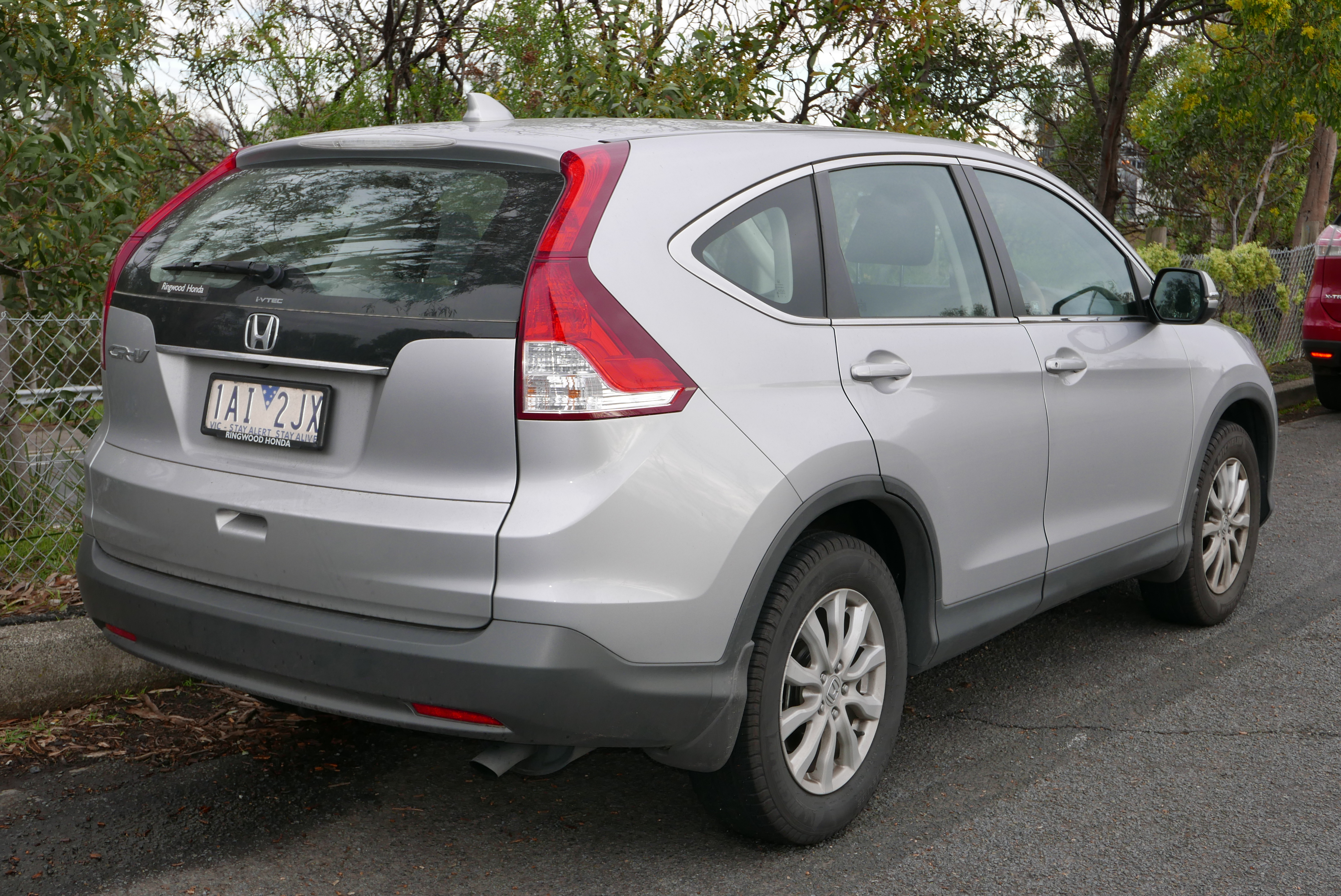 2014 Honda CR-V (RM MY15) VTi 2.0 2WD wagon. Photographed in Kew, Victoria, Australia. Vehicle registration enquiry resultsJurisdictionVictoriaRegistration1AI2JXChassis codeMRHRM1750FP060105Engine codeR20A59801543Compliance date2014-01Year of manufacture2014